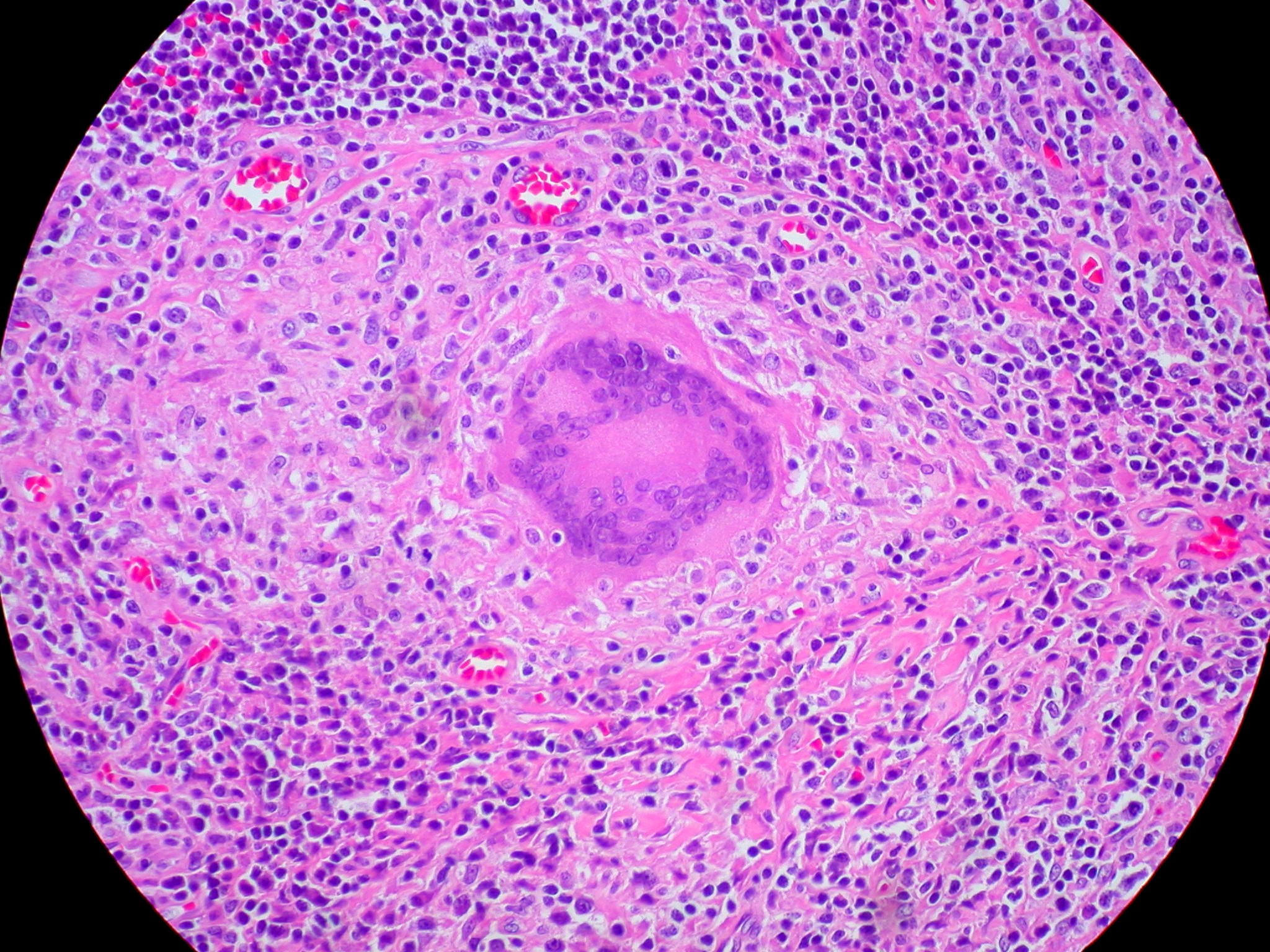 Presiding over a noncaseating granuloma. Pathological and histological images courtesy of Ed Uthman at flickr.